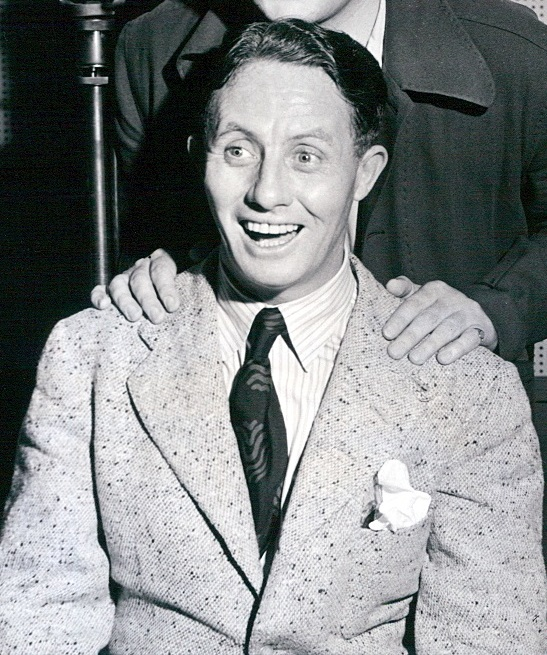 Comedians Bert Wheeler and Hank Ladd in a promotional photograph for the NBC Blue Network in 1941